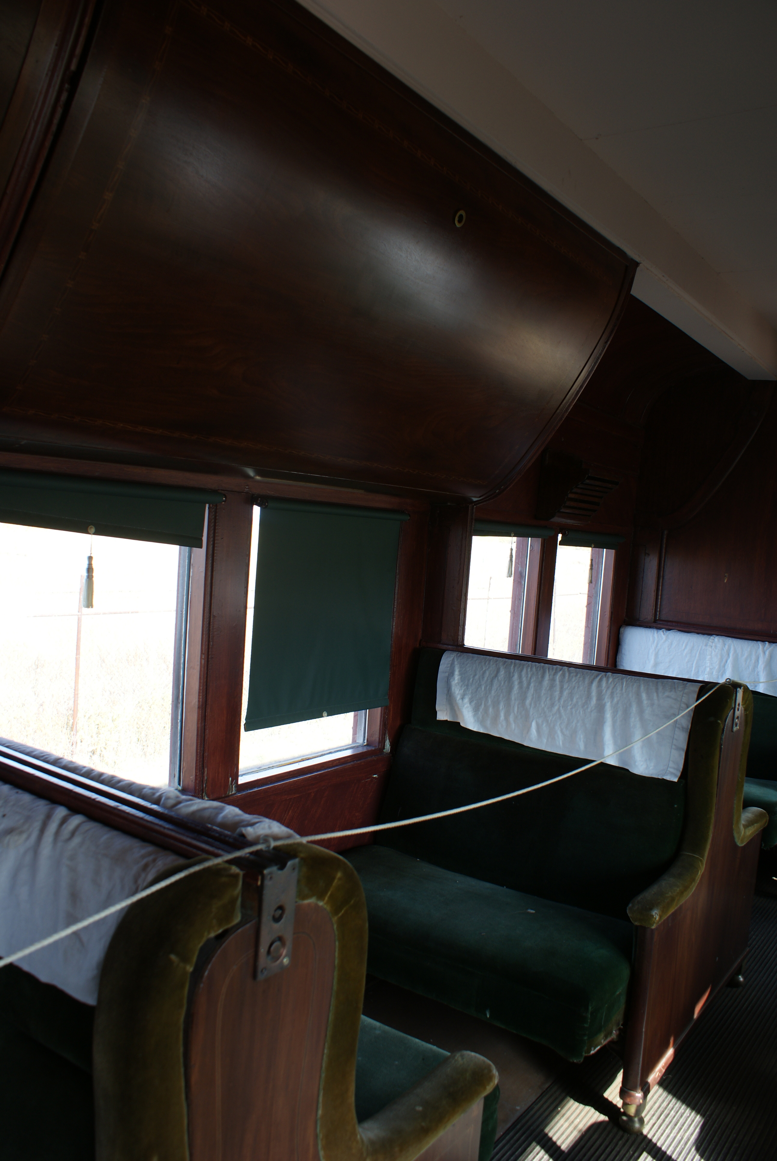 Interior of a passenger car made by Pullman at the Saskatchewan Railway Museum